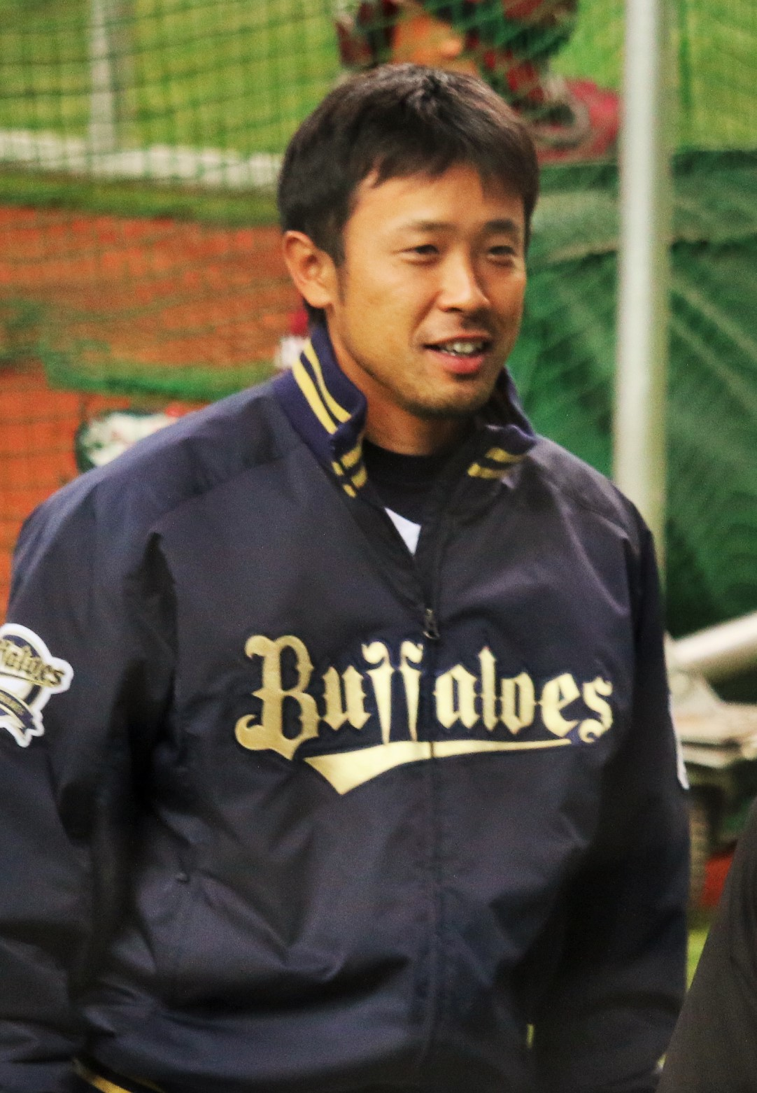 Teppei Tsuchiya, outfielder of the Orix Buffaloes, at Osaka Dome.